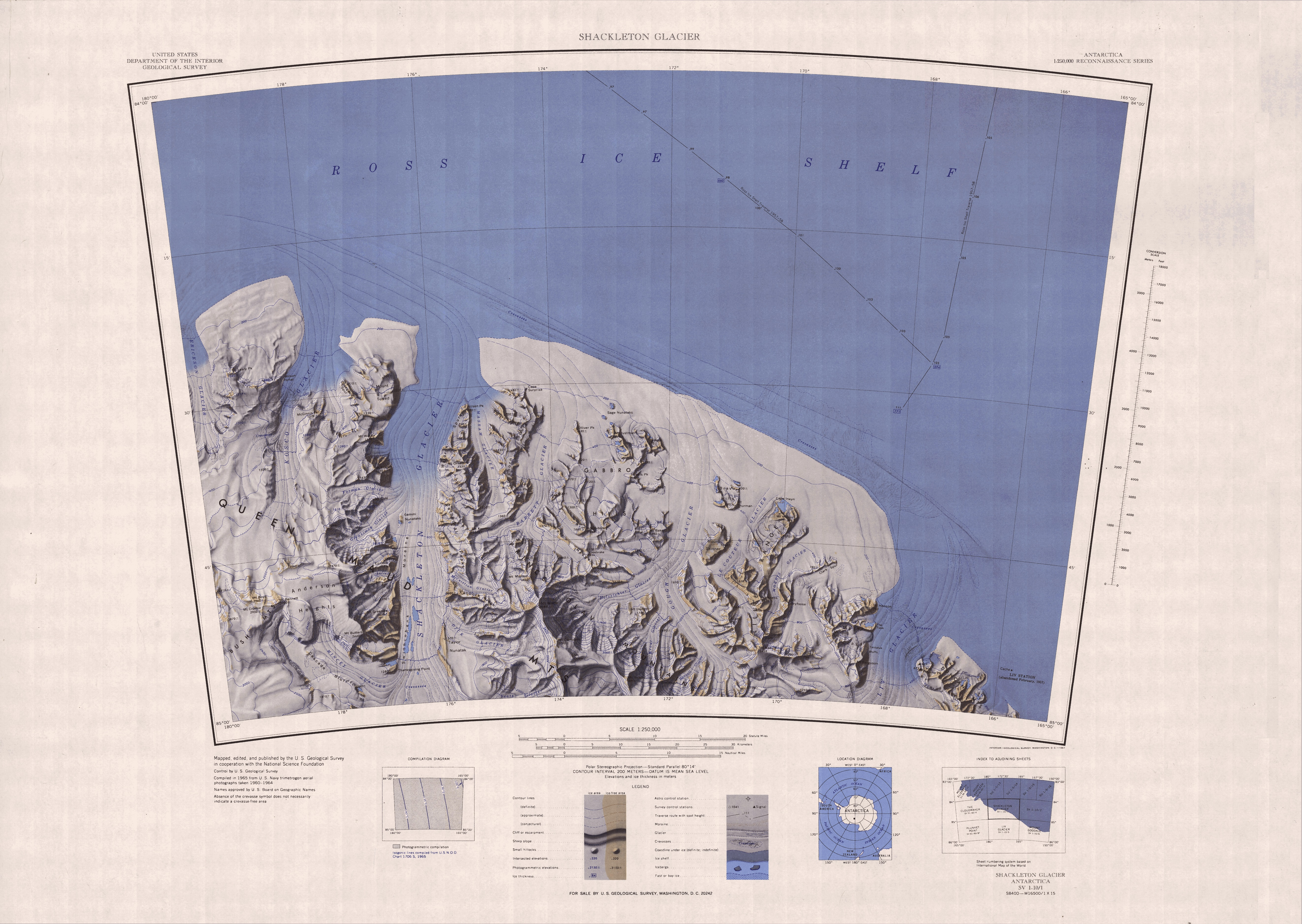 1:250,000-scale topographic reconnaissance map of the Shackleton Glacier and Prince Olav Mountains (Queen Maud Mountains) area from 180°-165°W to 84°-85°S in Antarctica. Mapped, edited and published by the U.S. Geological Survey in cooperation with the National Science Foundation.